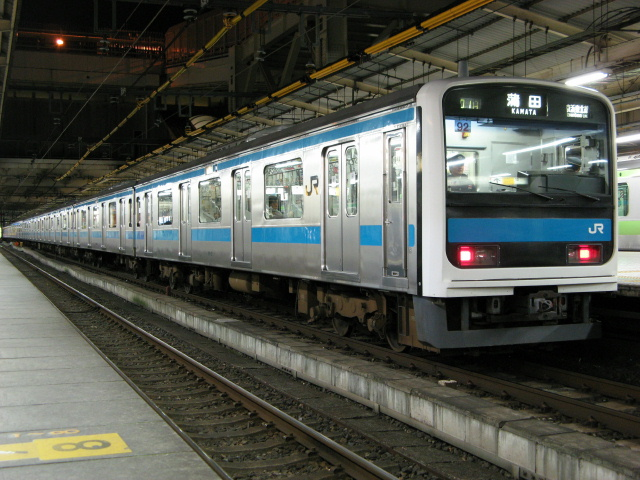 JR East 209-920 series EMU set 92 at Ueno Station on the Keihin-Tohoku Line